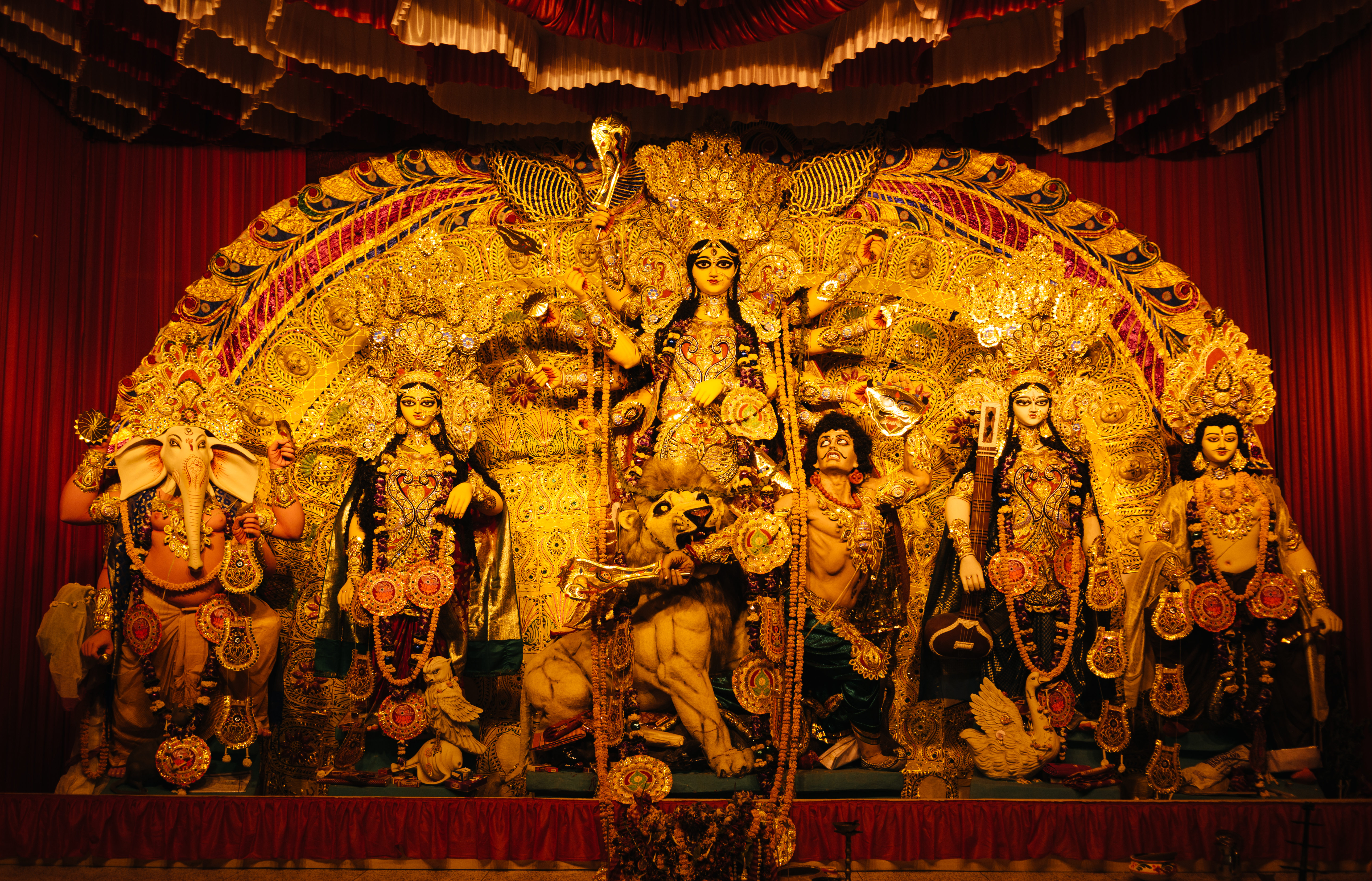 Durga Puja, also called Durgotsava, is an annual Hindu festival in the Indian subcontinent that reveres the goddess Durga. It is particularly popular in West Bengal, Bihar, Jharkhand, Odisha, Assam, Tripura, Bangladesh and the diaspora from this region, and also in Nepal where it is called Dashain. The festival is observed in the Hindu calendar month of Ashvin, typically September or October of the Gregorian calendar, and is a multi-day festival that features elaborate temple and stage decorations (pandals), scripture recitation, performance arts, revelry, and processions. It is a major festival in the Shaktism tradition of Hinduism across India and Shakta Hindu diaspora.